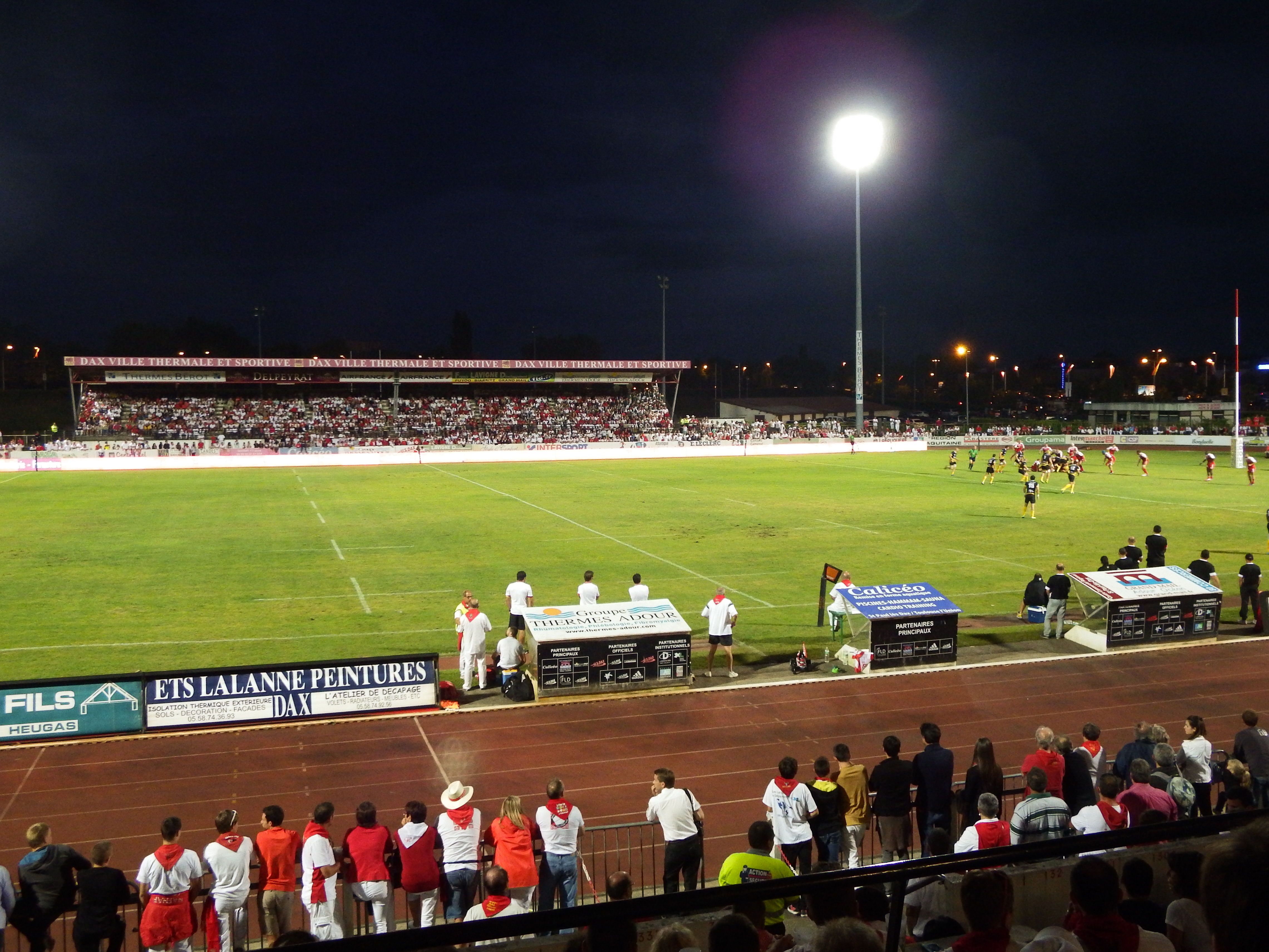 rugby union friendly match — 15 August 2014, stade Maurice-Boyau. Match between: US Dax — Stade Montois